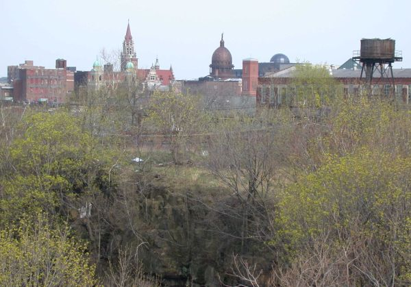 The skyline of Paterson, New Jersey showing the canyon of the Passaic River in the foreground © 2004 Matthew Trump